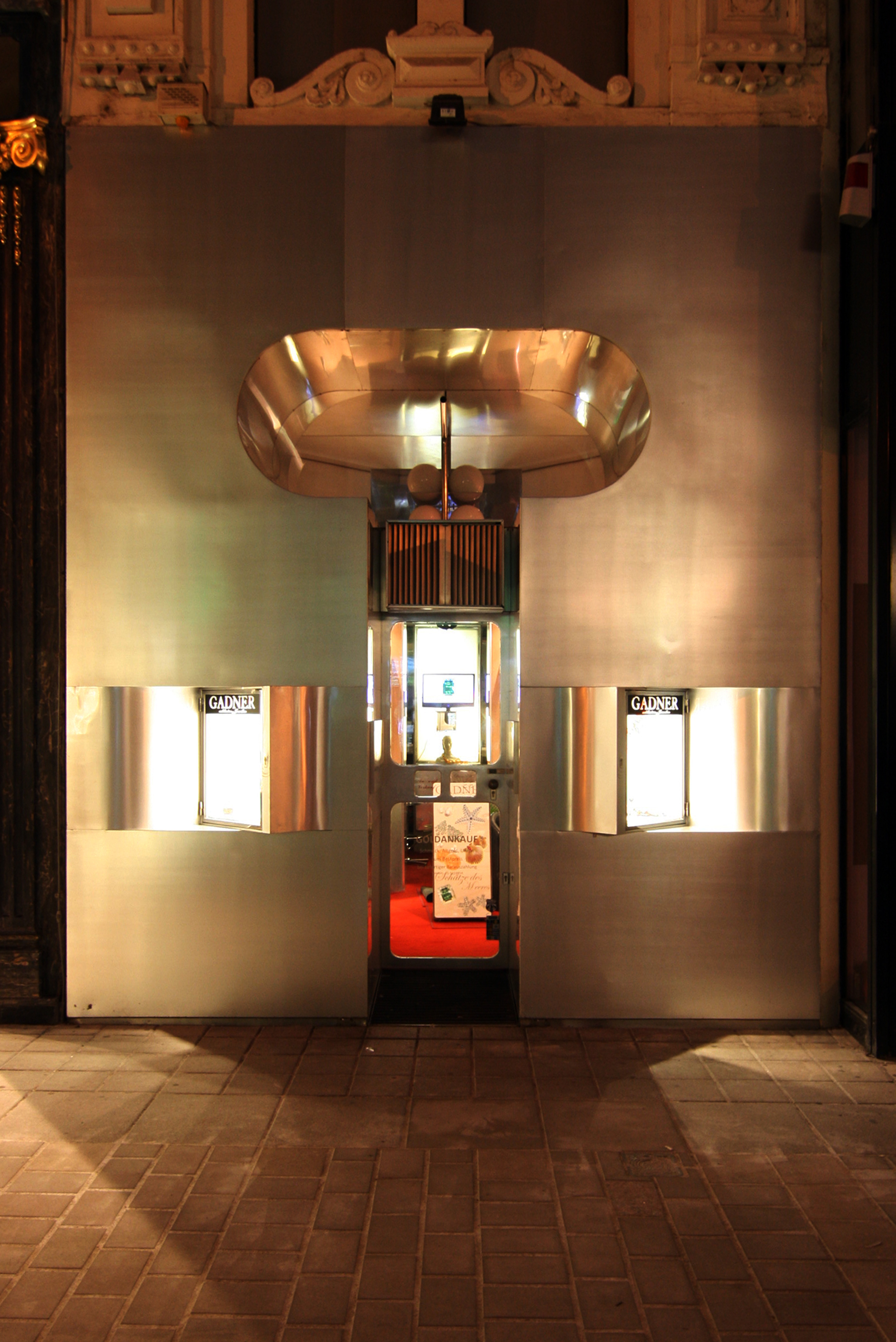 Former candle shop "Retti", designed by Hans Hollein